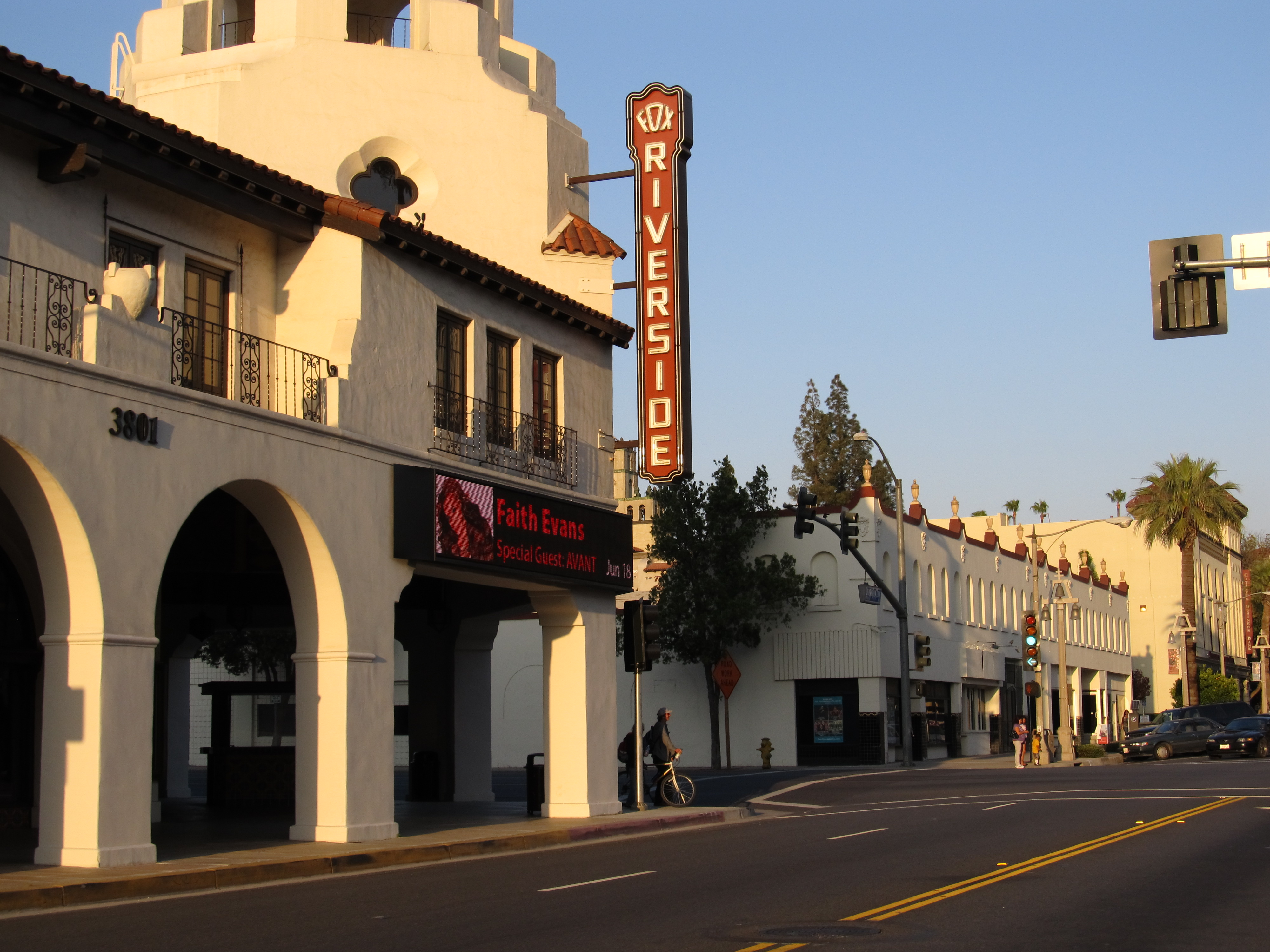 Fox Theater in Riverside, CA.